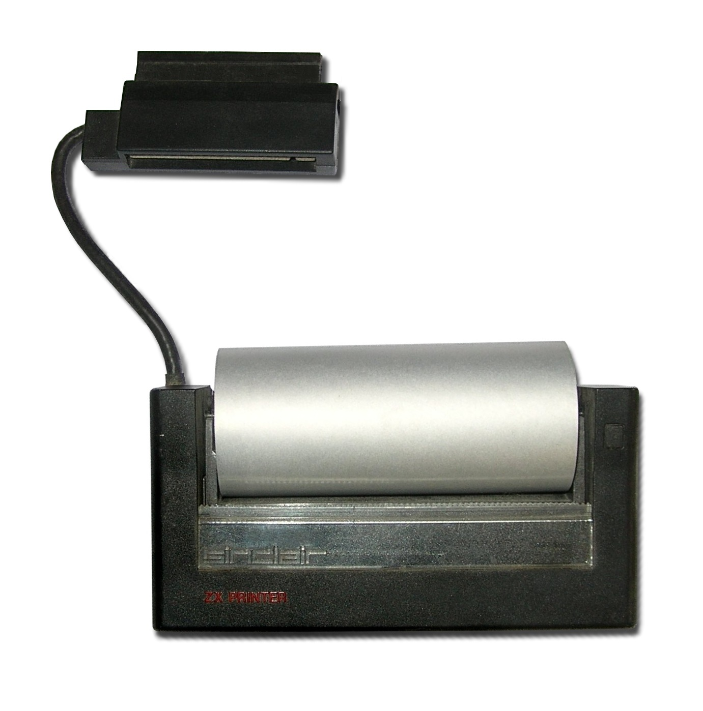 Optional thermal printer for the ZX-81.